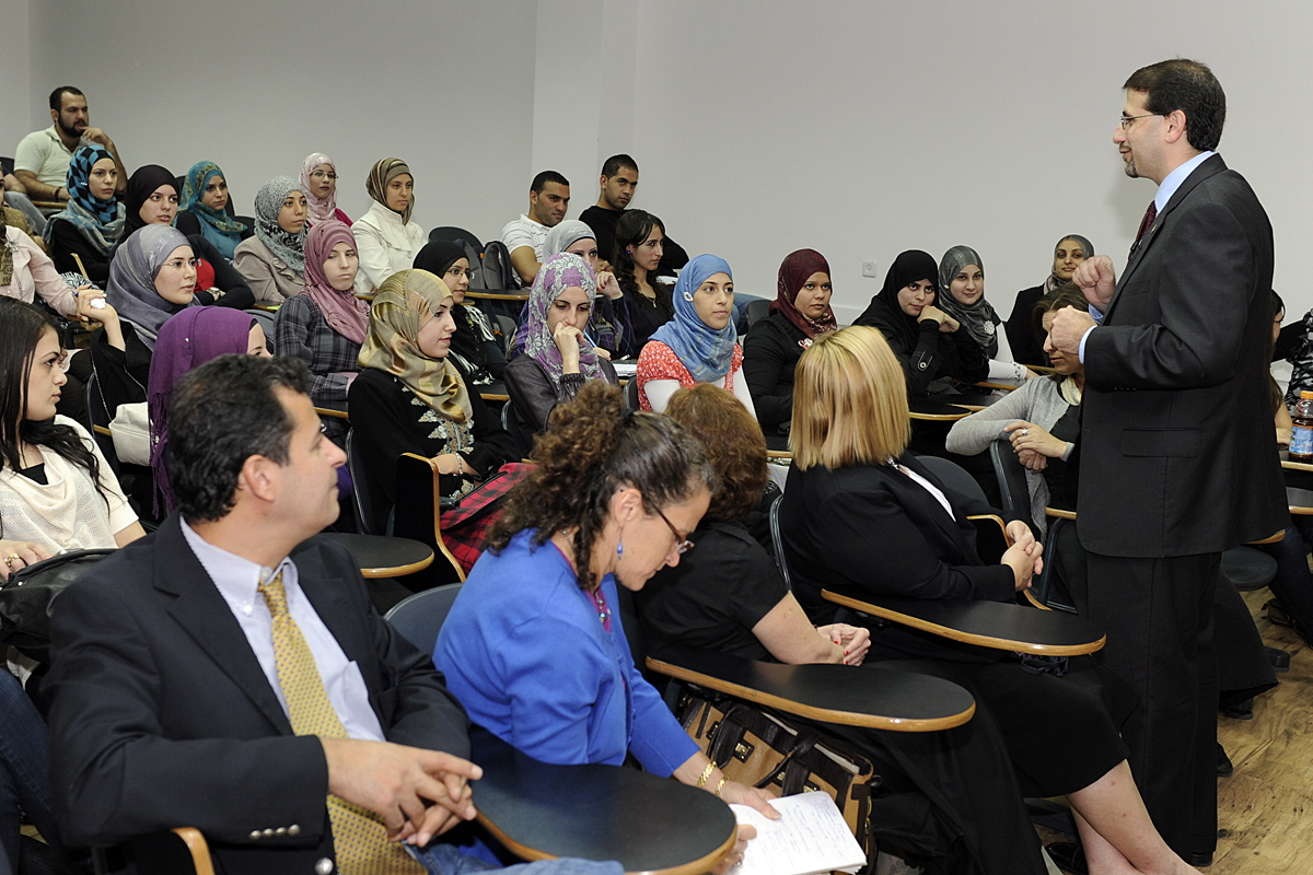 US Ambassador Dan Shapiro and his wife Mrs. Julie Fisher visited Al Qasemi Academy in Baka Al Gharbiya accompanied by the Public Affairs Counselor Hilary Olsin-Windecker and the Cultural Attaché Michele Dastin-vaj Rijn on November 1, 2011 . The Ambassador met with the Academy’s President Dr. Mohammad Essawi and his deputy Dr. Dalia Fadila. The visit included a tour of the Academy’s different departments, including the Educational Children Center, Computer Science, and the Library which holds ancient scriptures and Holy Quraans from Iran and Afghanistan. The Ambassador also met with faculty members and students, including Alumni of the USG MEPI Students Leaders Exchange program, who shared their exciting experience in the US. The tour ended with an interview at the Academy’s student radio station where he also extended his greetings for the upcoming Eid Aldha to all the Arab Muslim community in Israel.